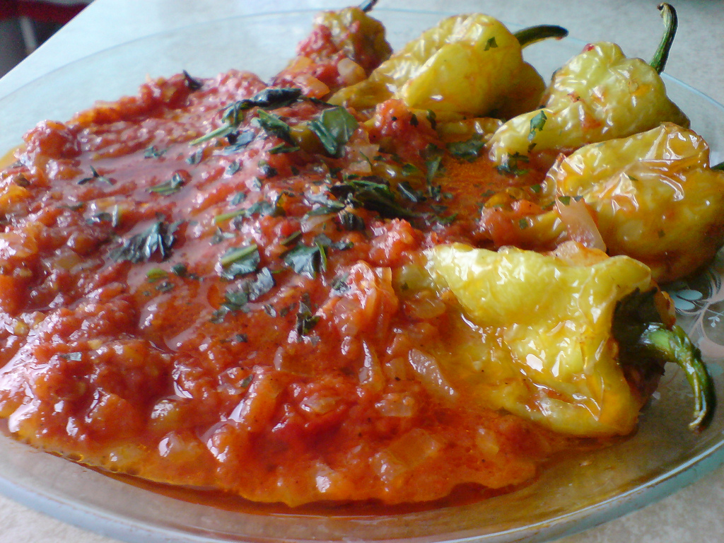 Fried pepper with tomato sause and basil. Traditional Bulgarian cuisine.